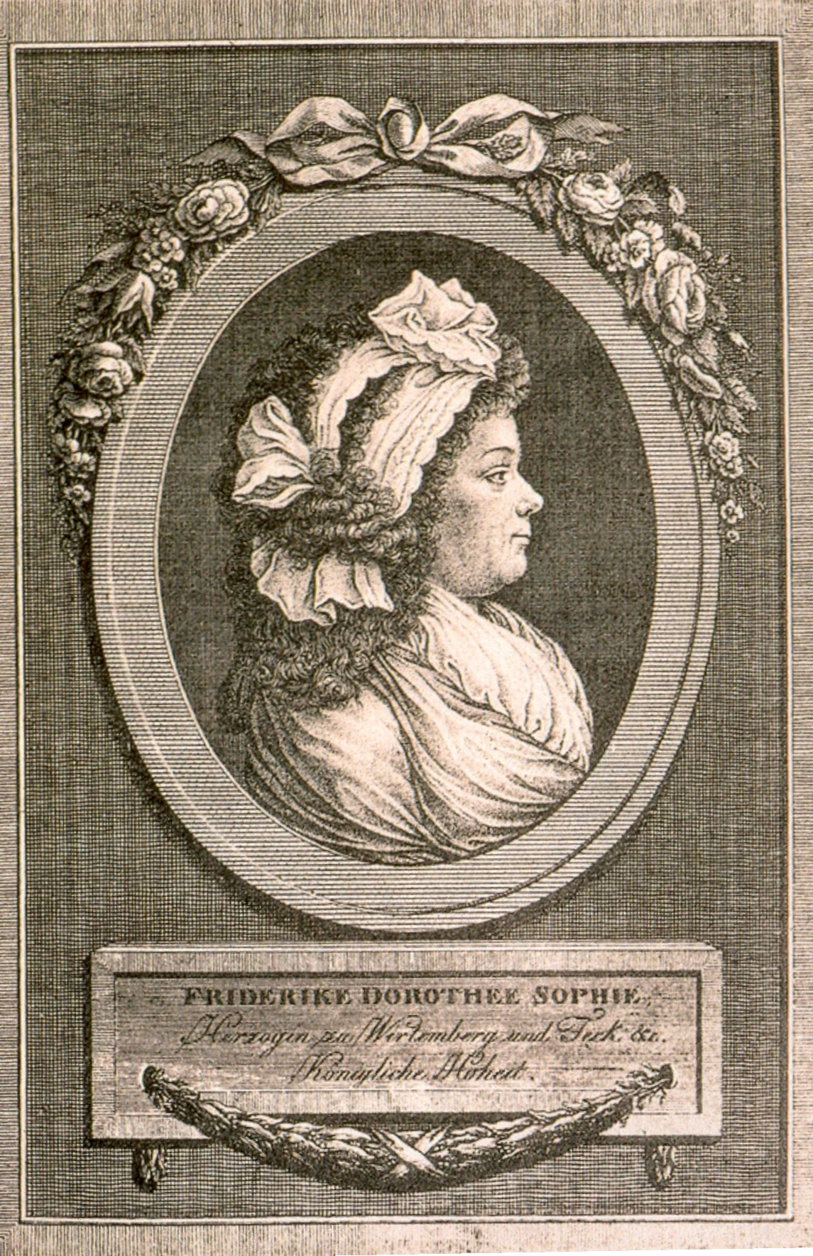 Portrait of Margravine Sophia Dorothea of Brandenburg-Schwedt (1736-1798)